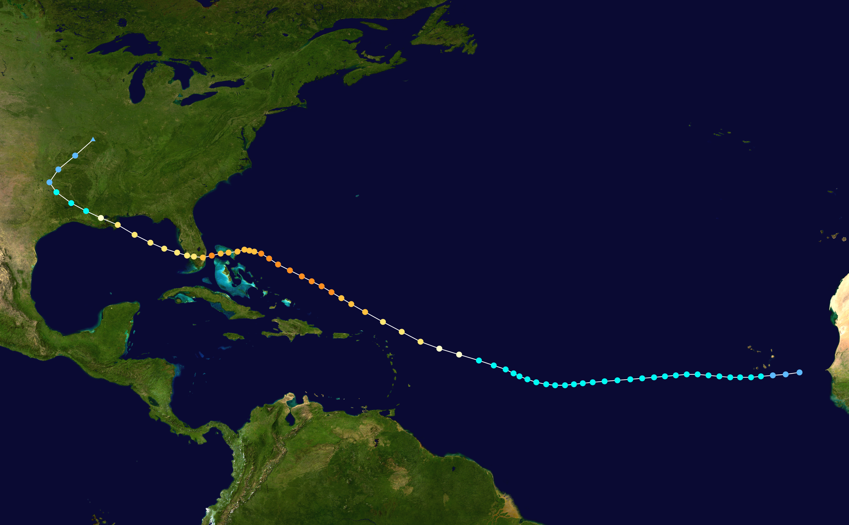 1947 Fort Lauderdale hurricane track. Uses the color scheme from the Saffir-Simpson Hurricane Scale.